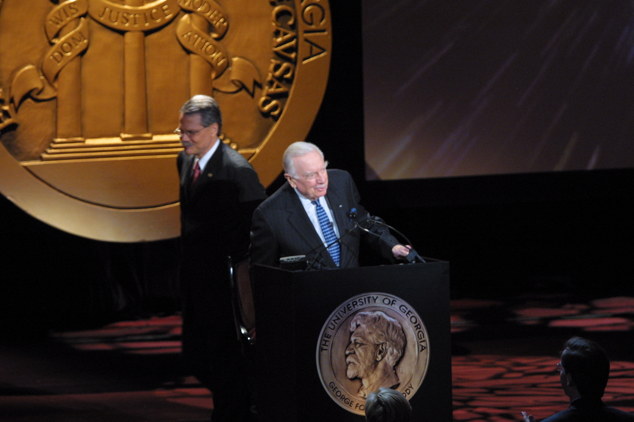 PHOTO CREDIT: ANDERS KRUSBERG / PEABODY AWARDS Walter Cronkite hosting the 61st Annual Peabody Awards Luncheon Waldorf=Astoria Hotel May 20, 2002